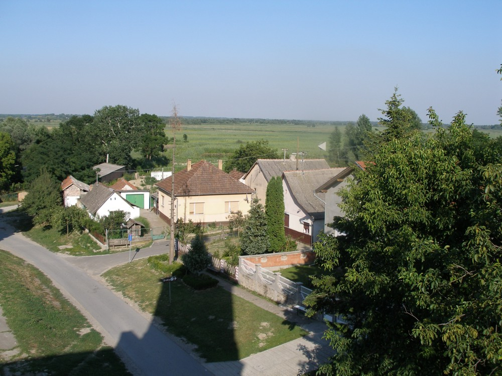 vardarac